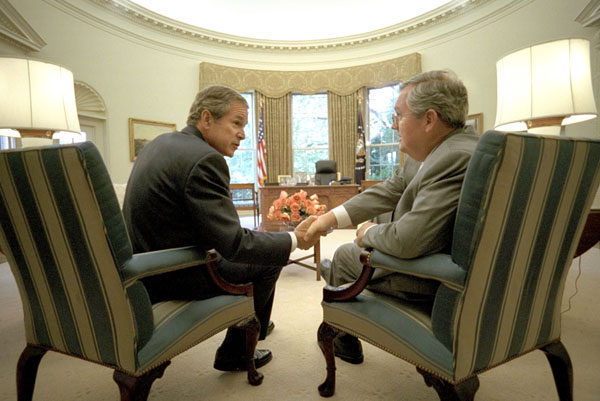 President George W. Bush and Representative Charles Norwood seal their negotiations over the Patient's Bill of Rights in the Oval Office late afternoon Wednesday August 1, 2001. Shortly thereafter, the President and Rep. Norwood gave a press briefing announcing their agreement. White House photo by Eric Draper.